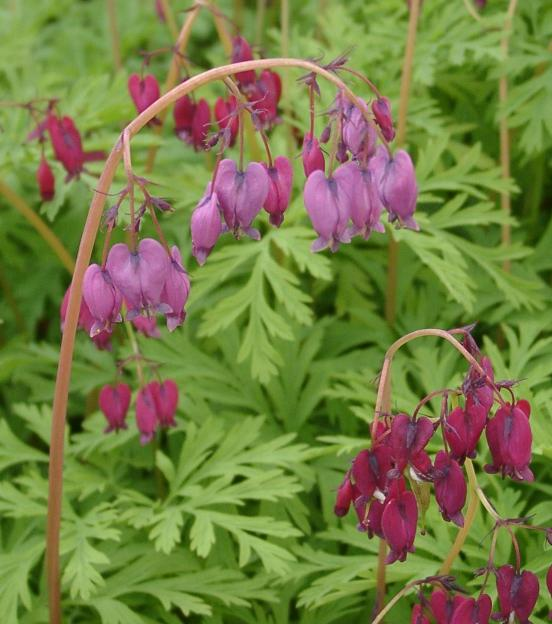 Dicentra bachanal